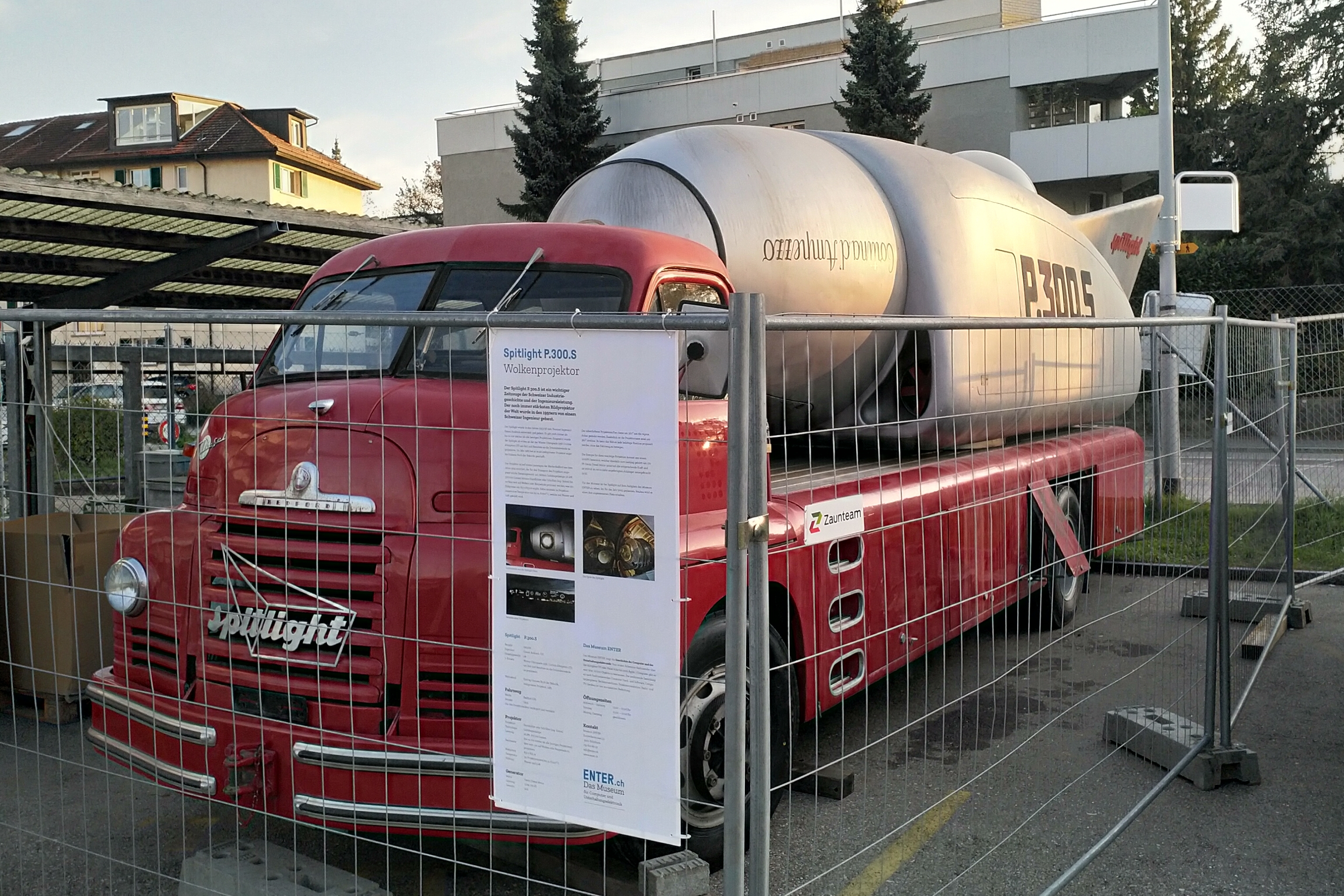 The P.300.S Spitlight is a device for projecting very large images (maximum width 1 kilometre) from Gobo masks on clouds or rock faces. It was designed by Gianni Andreoli in 1954-1955 and was used in the 1956 Winter Olympics. It is mounted on a lengthened Bedford 5010 lorry. In 1985, it received a Guinness entry as the world's largest projector. Here depicted outside the "Enter" museum in Solothurn, Switzerland